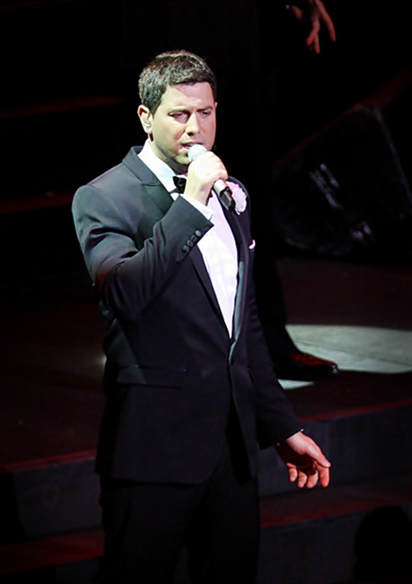 Il Divo Orchestra in Concert At Sydney Opera House